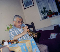 Photo of musician Maurilio Santos in his home taken by his son Maurilio da Silva Santos Filho on May 10, 2008.